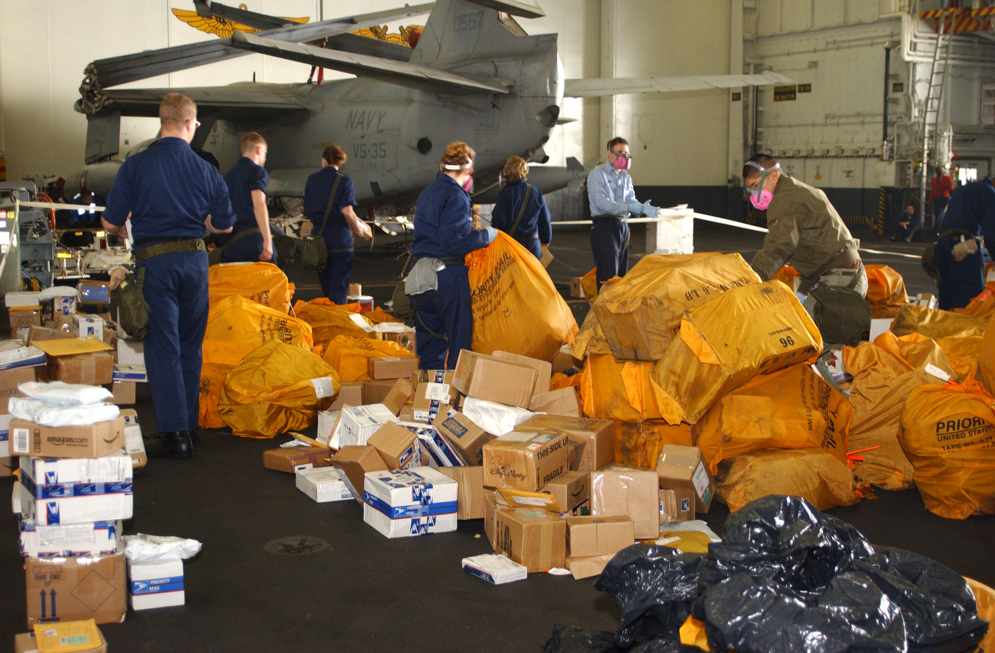 The Arabian Gulf (Mar. 23, 2003) -- Crewmembers sort through the days mail staged in the hangar bay aboard the aircraft carrier USS Abraham Lincoln (CVN 72). Lincoln and Carrier Air Wing Fourteen (CVW-14) are deployed conducting combat missions in support of Operation Iraqi Freedom. Operation Iraqi Freedom is the multinational coalition effort to liberate the Iraqi people, eliminate Iraq’s weapons of mass destruction and end the regime of Saddam Hussein. U.S. Navy photo by Photographer's Mate Airman Jason Frost. (RELEASED)